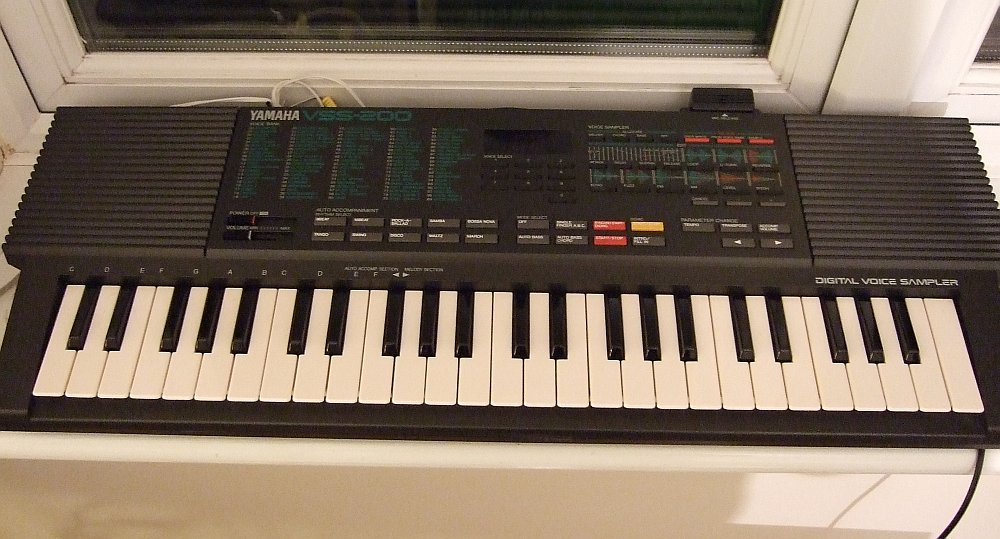 Image of a Yamaha VSS-200 Sampling keyboard